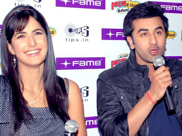 Katrina Kaif and Ranbir Kapoor at APKGK press meet